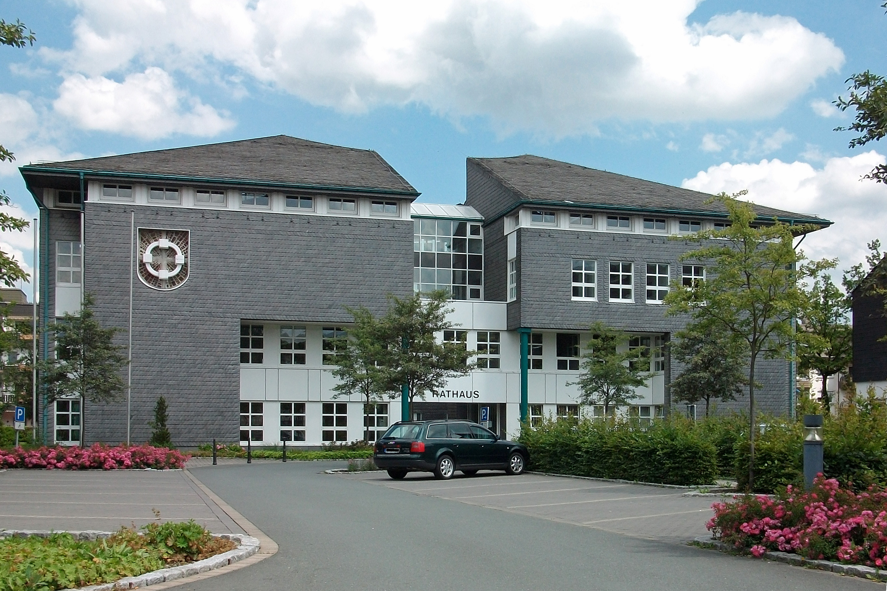 Rathaus Olsberg (Germany)